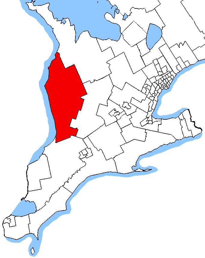 Map of the Huron—Bruce electoral district. Based on Earl Andrew's maps, created by SimonP.